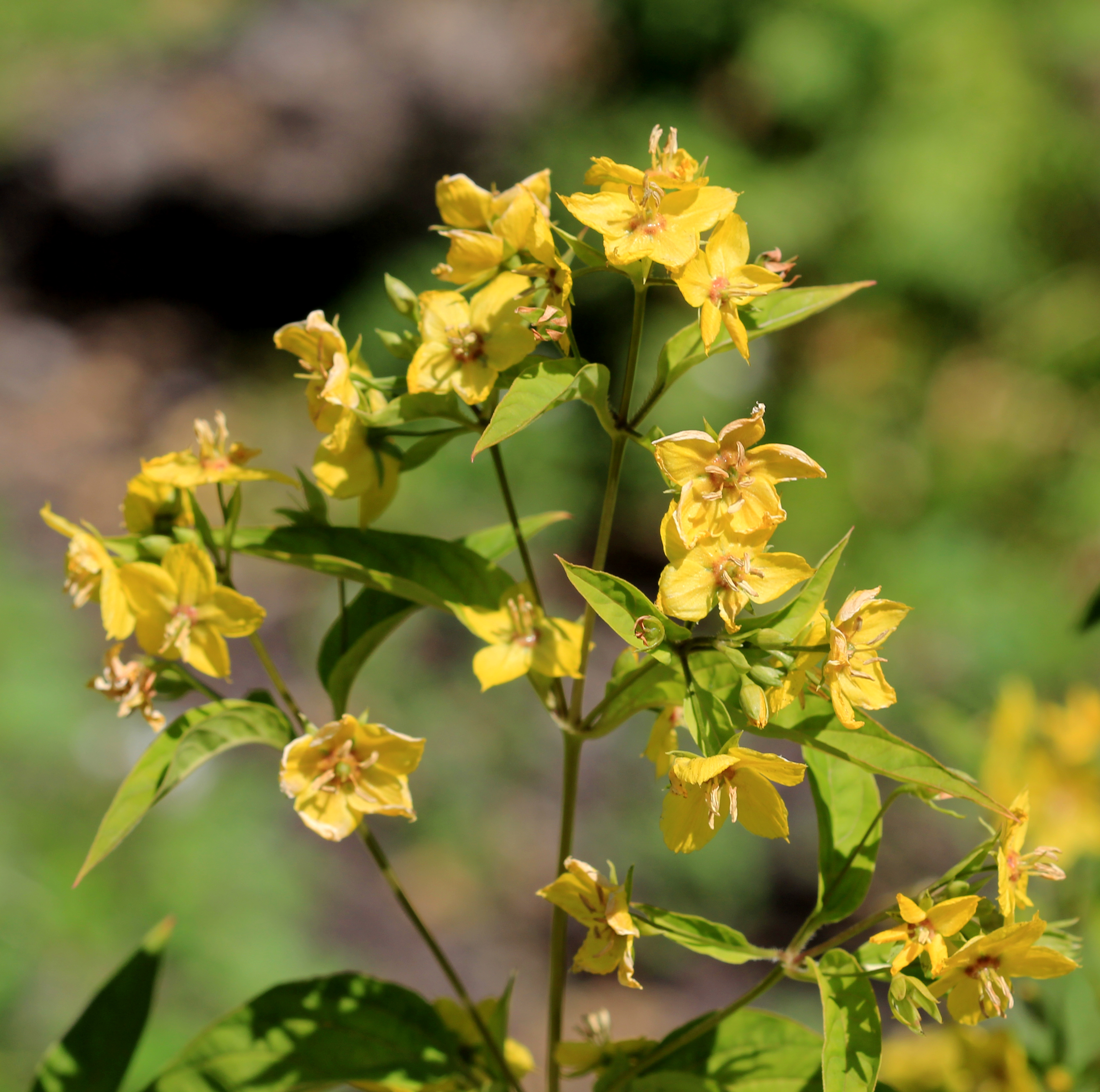 Flowers of plant Lysimachia ciliata or Lysimachia ciliata from the Botanical Gardens of Charles University, Prague, Czech Republic